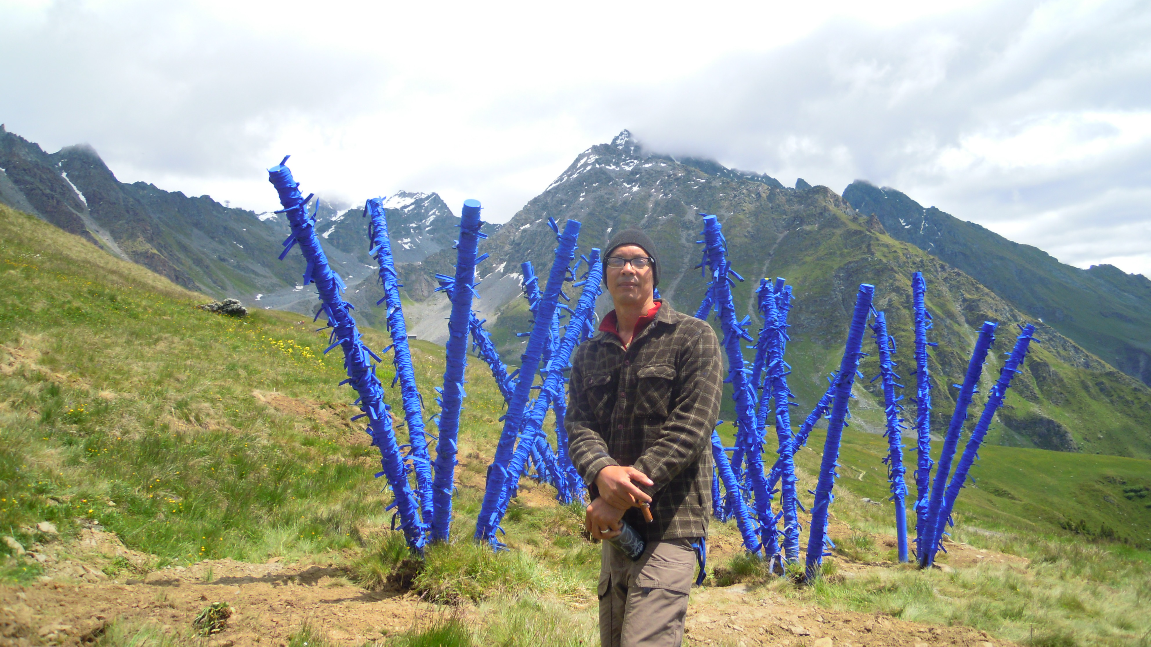 Fences: Installation , installed in Verbier , Swiss.2011